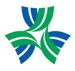 Yurihama Tottori chapter